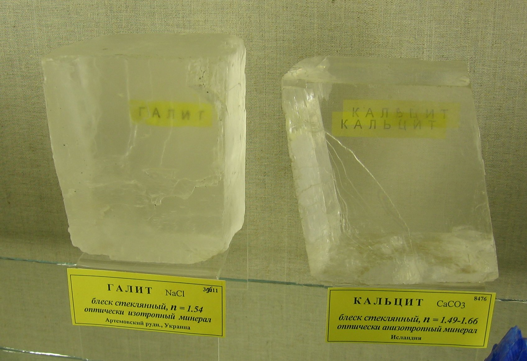 Optical properties of Halite (NaCl, optically isotropic) and Calcite (CaCO3, optically anisotropic, see Birefringence)